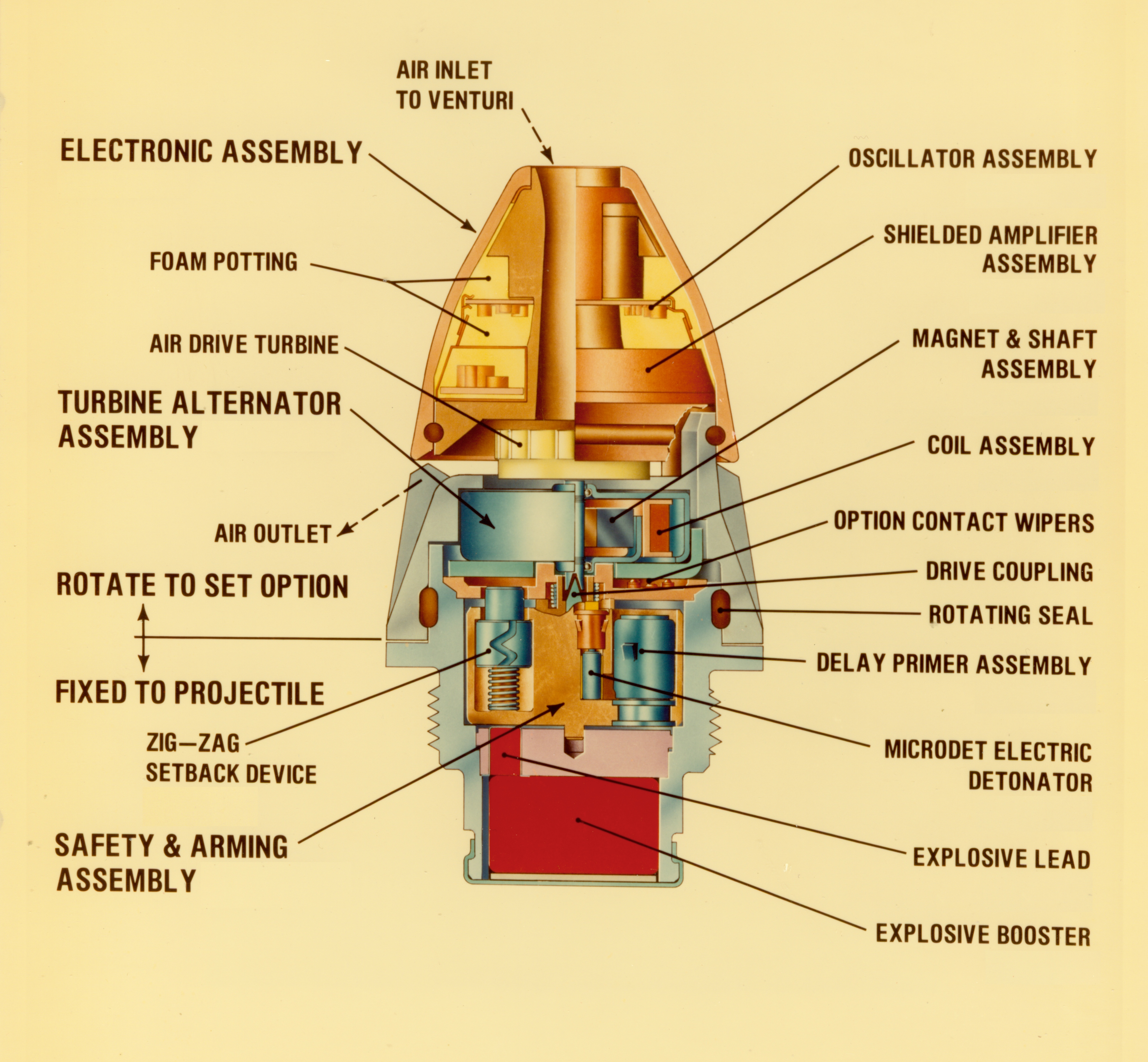 Drawing of M734 Fuze Components.